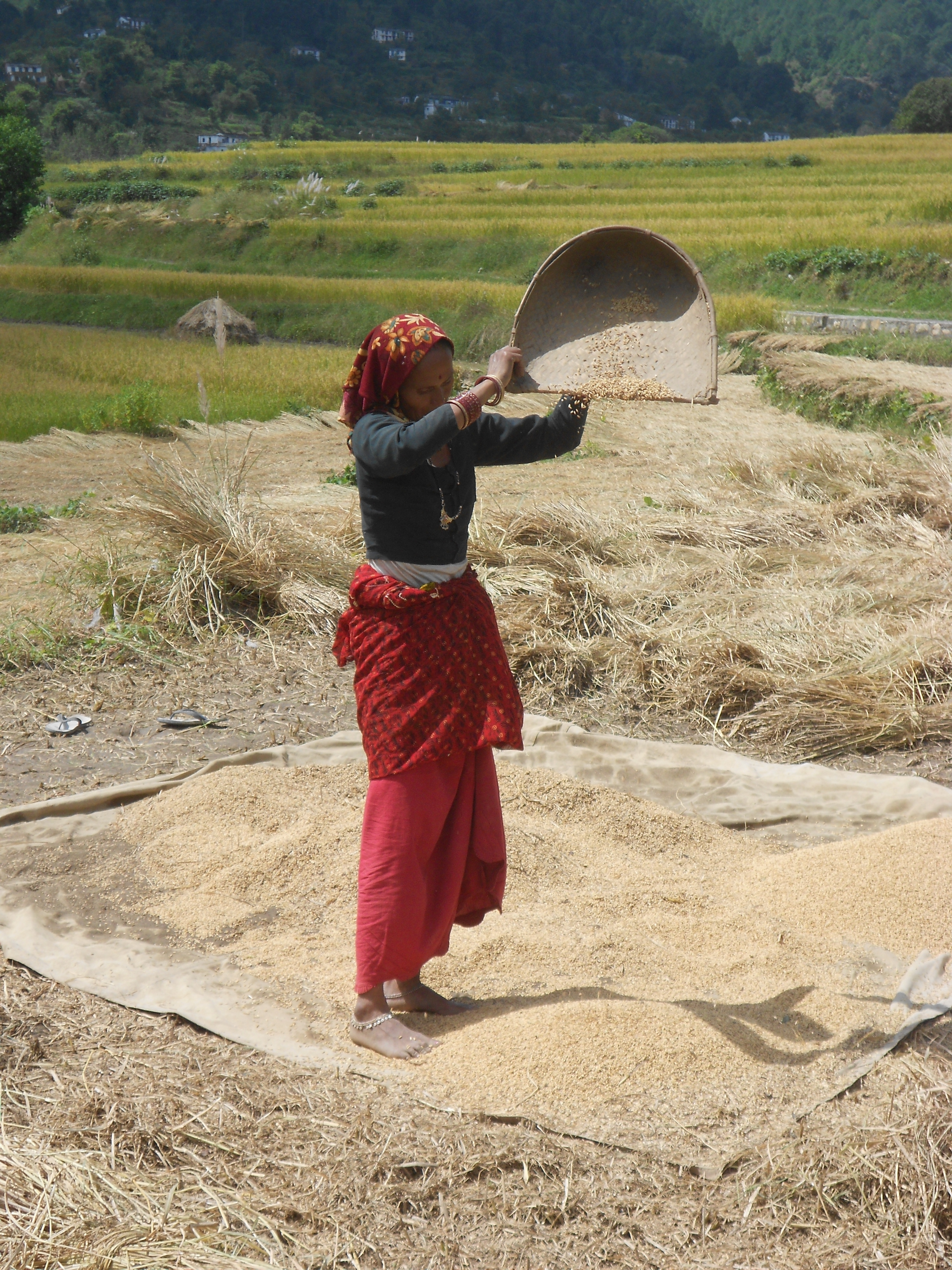 Rice winnowing, Uttarakhand, India.